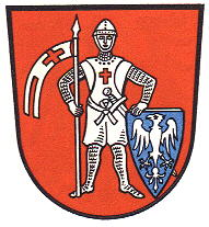 Coat of arms of the German city of Bamberg